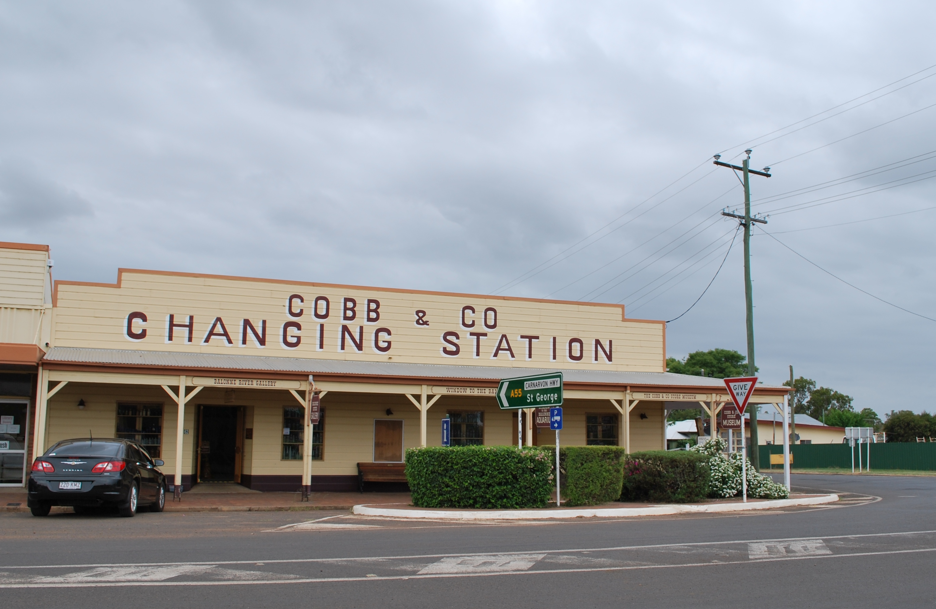 Tourist information centre, with a Cobb & Co facade, at Surat, Queensland